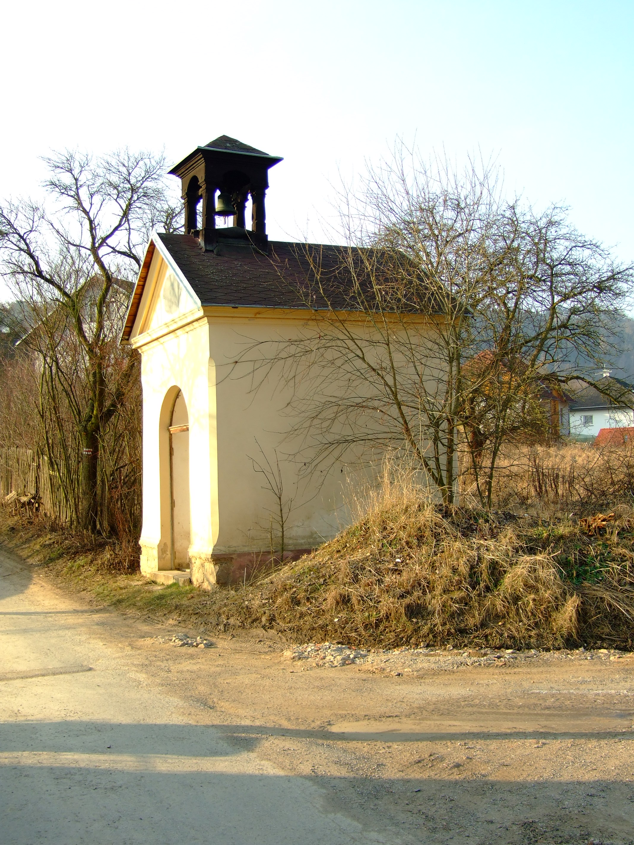 Solopisky village, chapel. Prague-West District, Central Bohemian Region, CZ.help